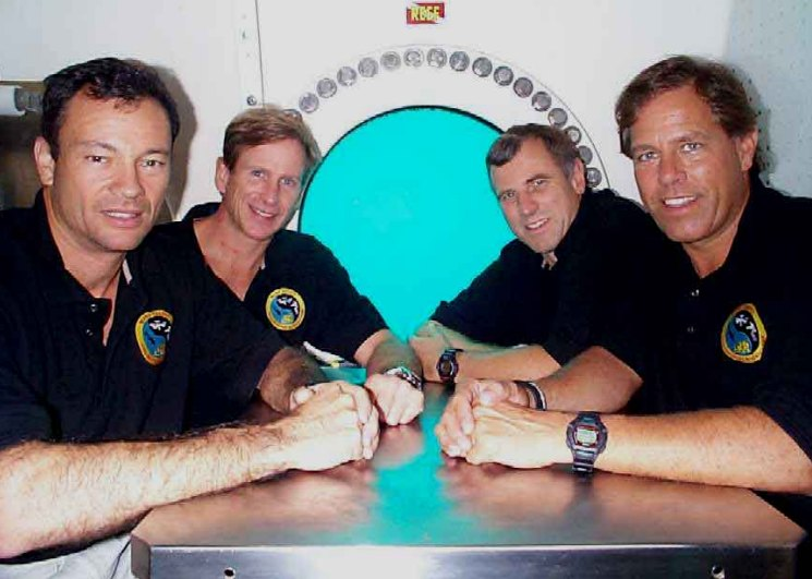 The crew of the NASA-NOAA NEEMO 1 undersea exploration mission, conducted at the Aquarius Reef Base off Key Largo, Florida in October 2001. Left to right: NASA astronaut/aquanauts Michael López-Alegría and Michael Gernhardt, Canadian Space Agency astronaut/aquanaut Dafydd Williams, and NASA program manager and NEEMO 1 commander Bill Todd.